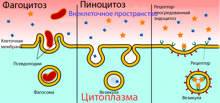 This file was taken from german wikipedia article (Blut-Hirn-Schranke) which was made under free licence. I changed german words in russian with Photoshop